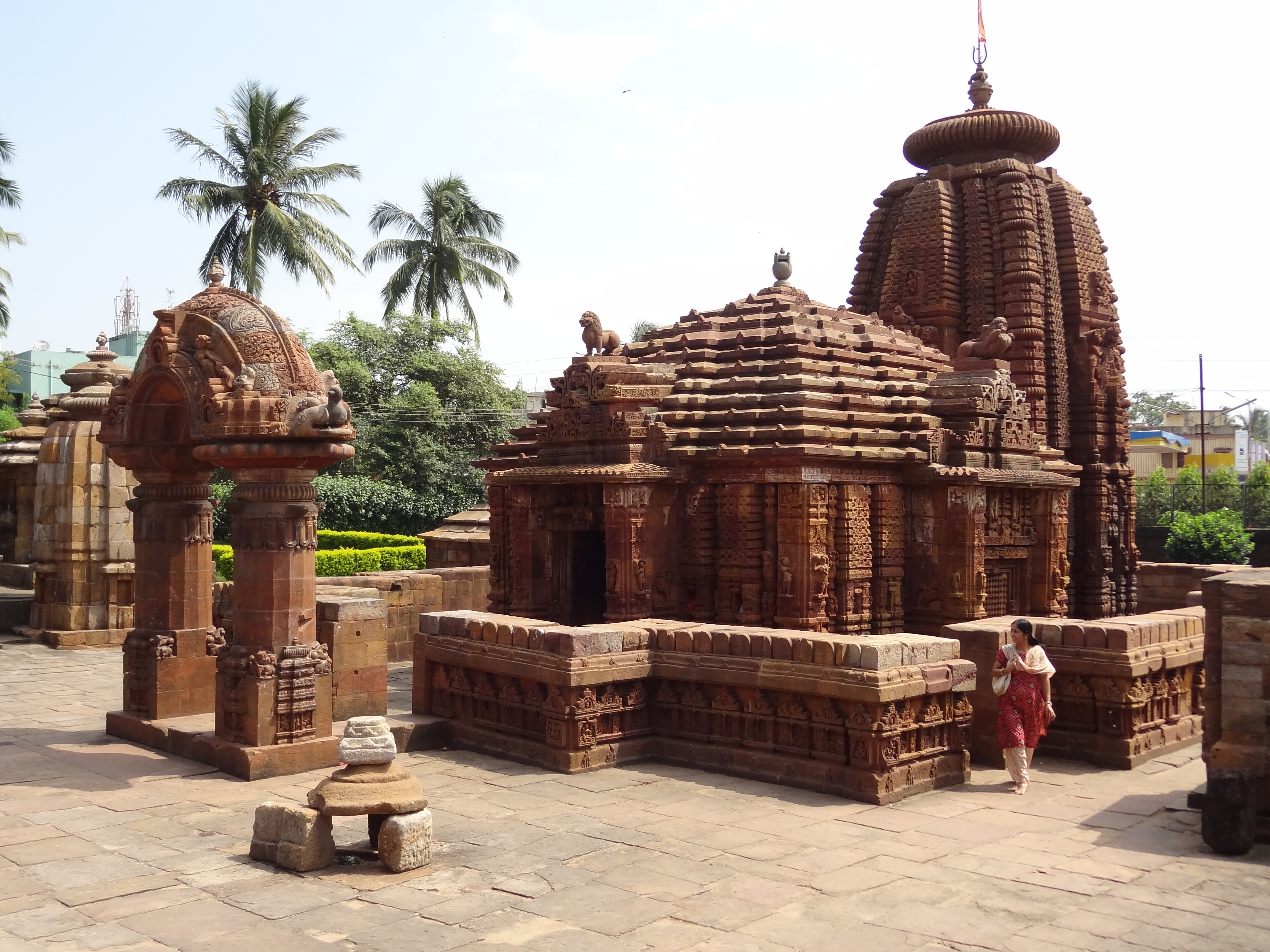 Mukteswar temple with its minar shrines but excluding the Murich Kunda.